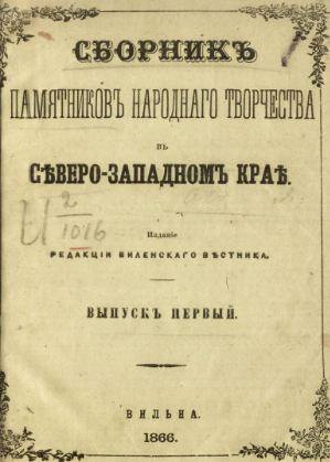 Front page of the "Collection of folklore art art North-Western region", Russian Empire, 1866